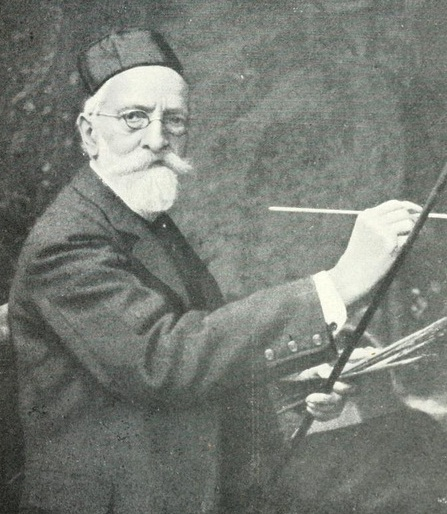 Portrait of the Italian painter Michele Gordigiani. In "Nuovi ritratti letterari e artistici" by Edmondo De Amicis (1908)